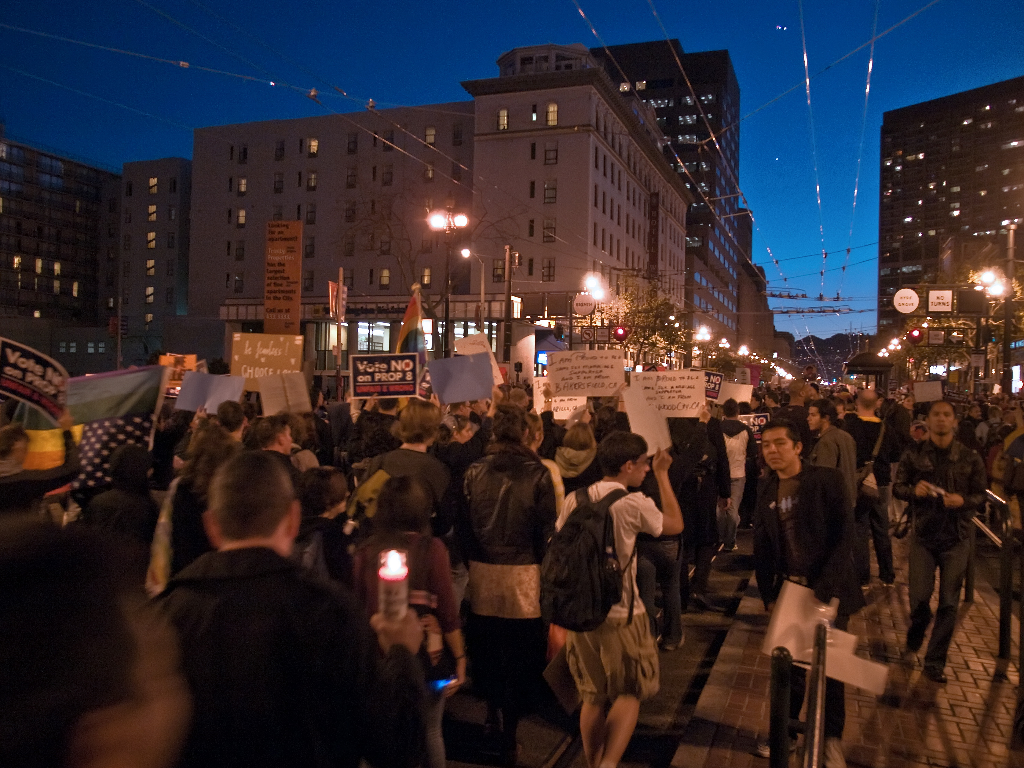 A protest march up Market Street from Civic Center to the Castro and Dolores Park